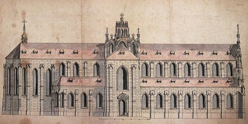 Original drawing of Monastery Church of the Assumption of Virgin Mary, St Wolfgang and St Benedict in Kladruby u Stříbra by Jan Santini Aichel